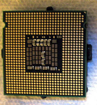 I ended up with neither of these. I later bought and upgraded to a Core 2 Duo E6300, my current main system's processor.